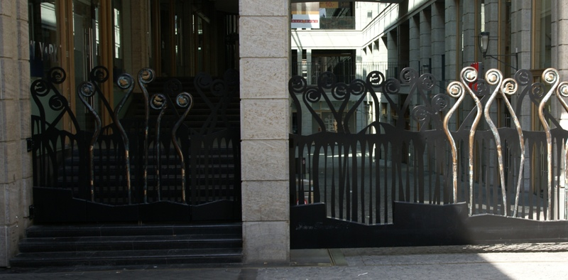 Ontluikende varens, Spilstraat, Maastricht, The Netherlands. By Desiree Tonnaer, 2006.